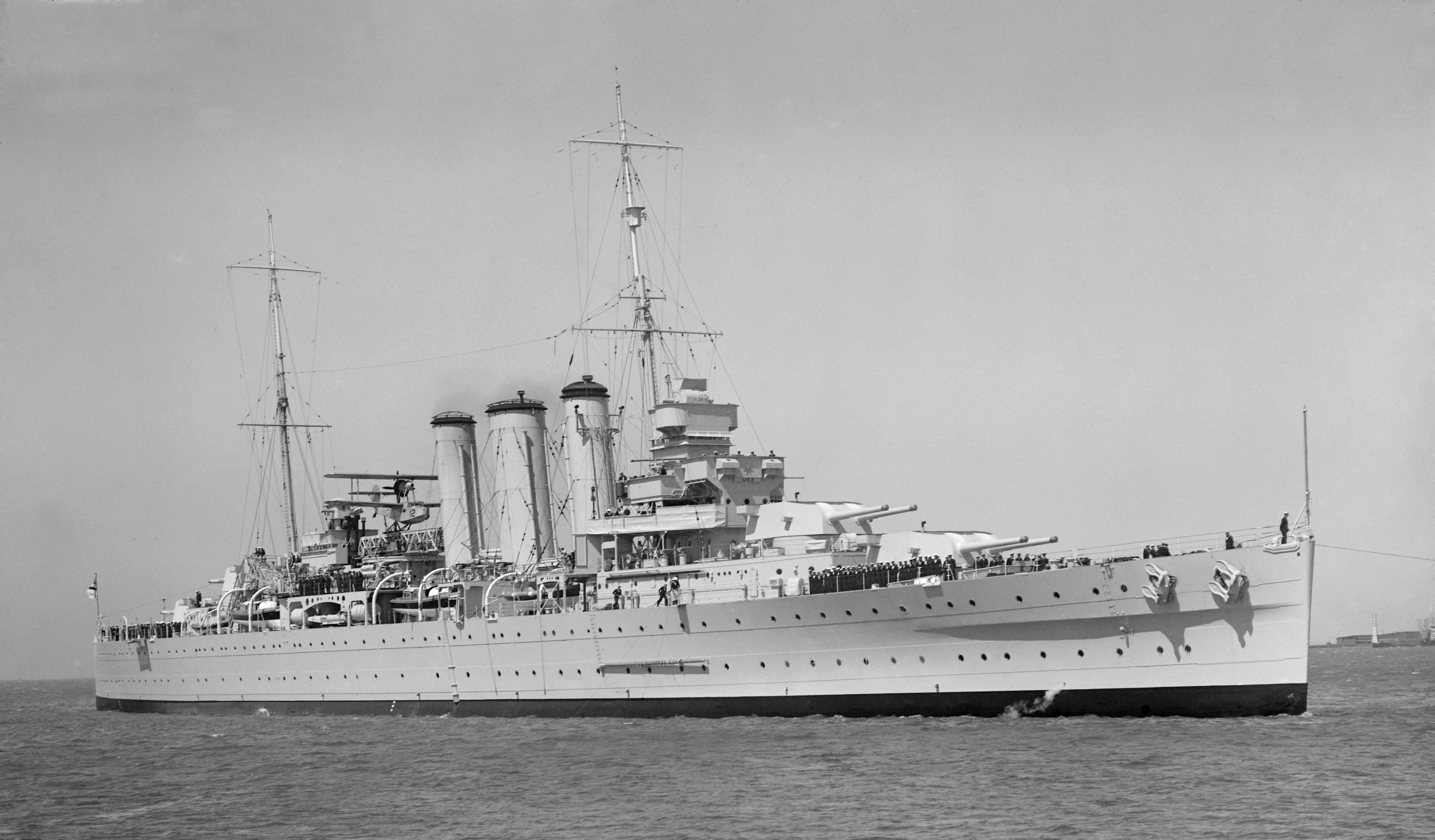 HMAS Australia